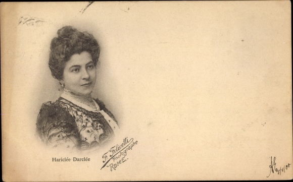 Hariclea Darclee